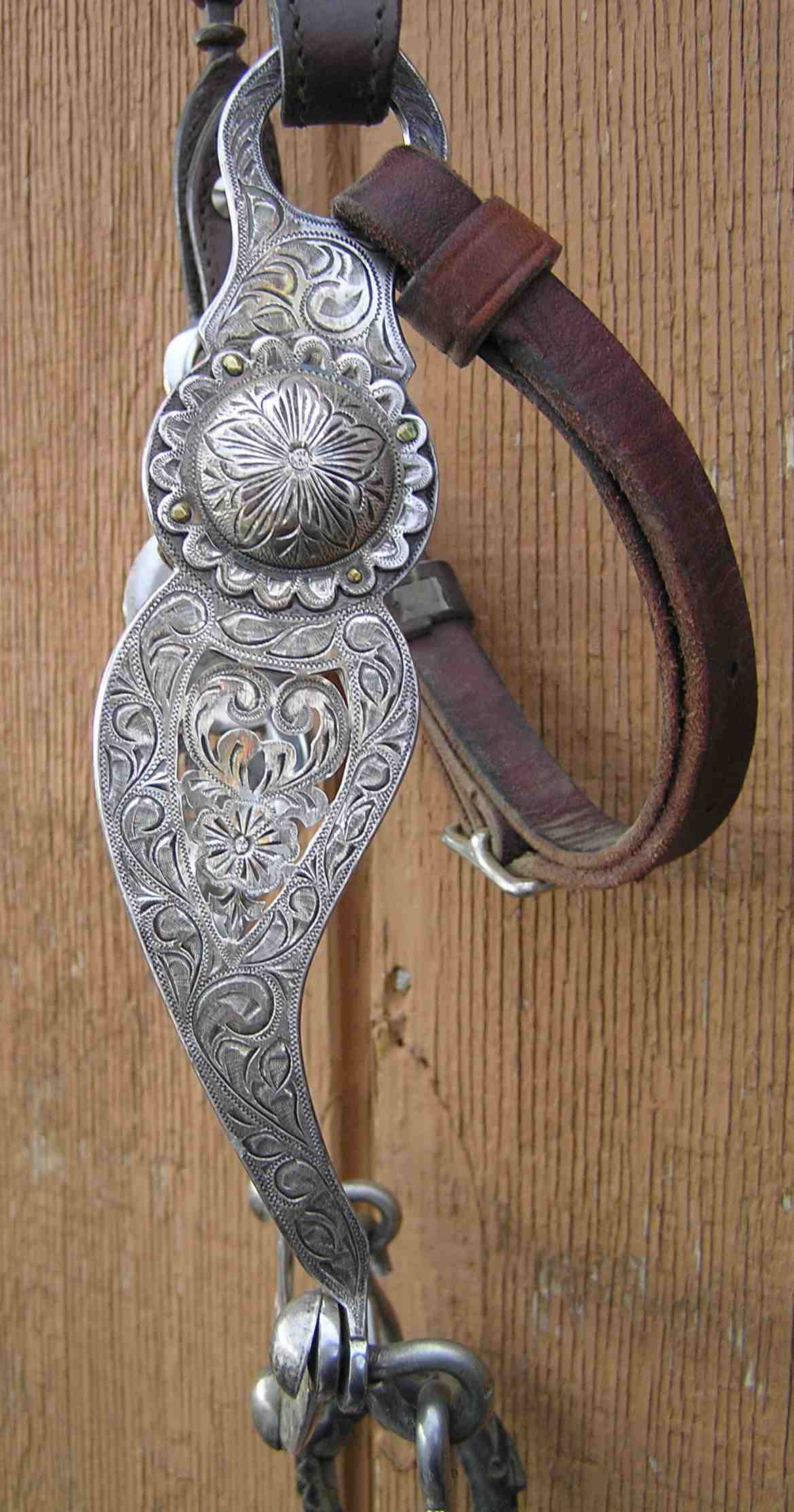 A western style curb bit with silver design, suitable for show.